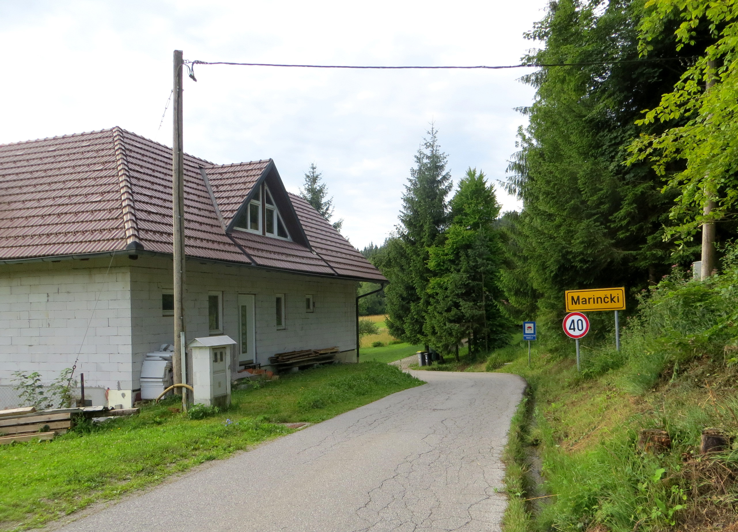 Marinčki, Municipality of Velike Lašče, Slovenia